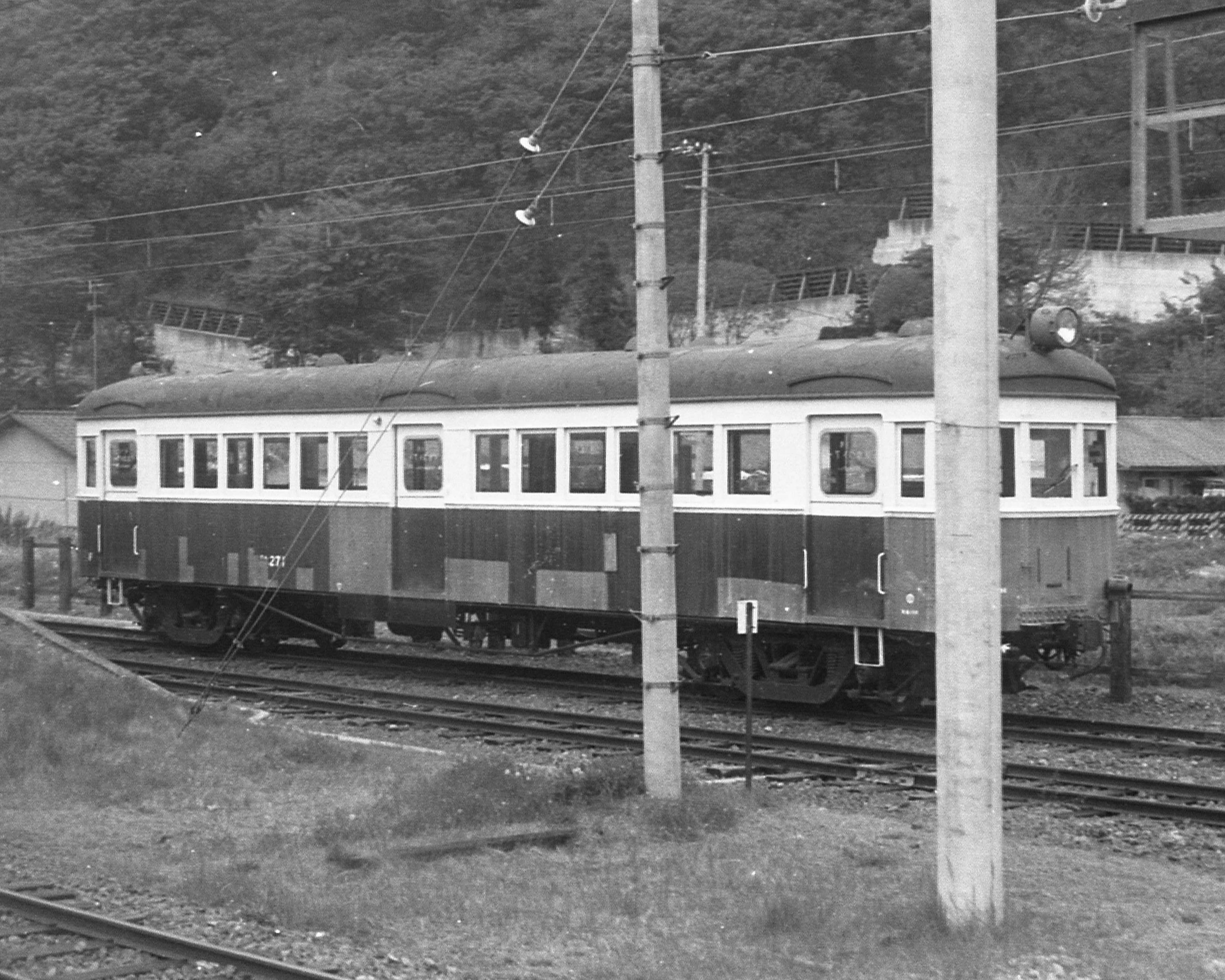 Ueda Koatsu Kuha 271 at Yashiro station. This carriage was sent back to Nagano Electric Railway after its withdrawal from operation.